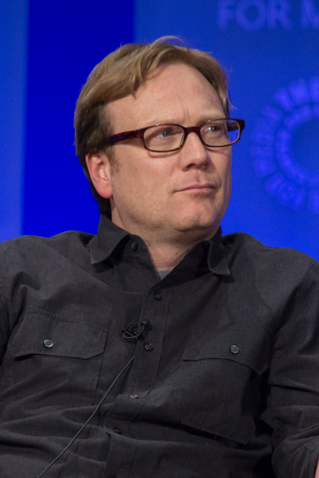 Andy Daly at PaleyFest 2015 - A Salute to Comedy Central